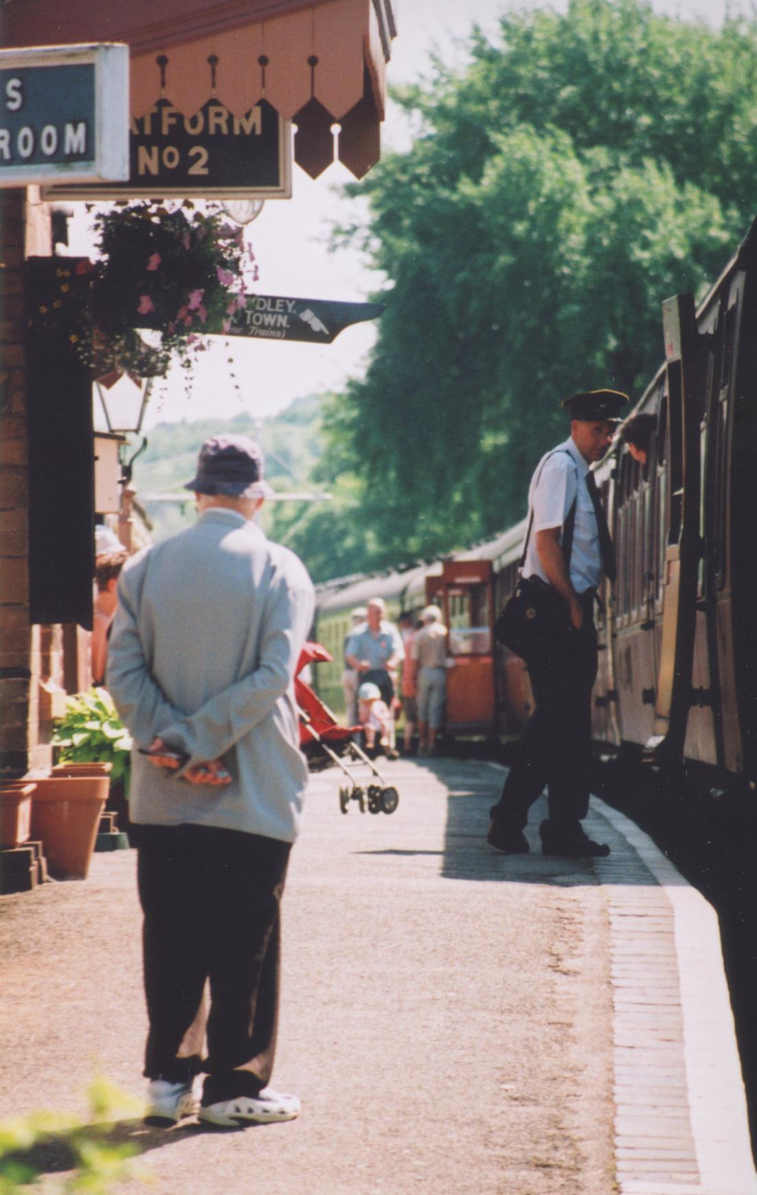 Hampton Loade up platform from the board crossing.